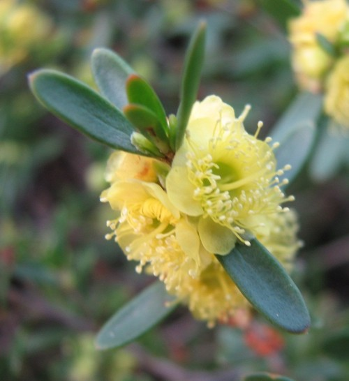 Hypocalymma xanthopetalum, Maranoa Gardens, Balwyn, Victoria, Australia